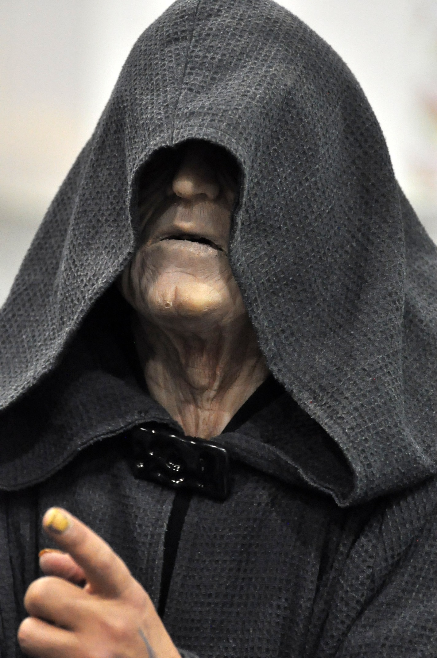 Cosplay at the Summer 2013 London MCM Expo at the ExCeL Exhibition Centre.